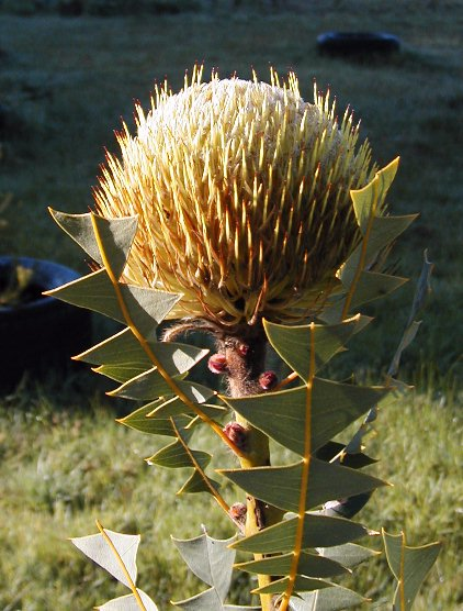 Banksia baxteri, cult. Colac Victoria -September 2004 photo Cas Liber